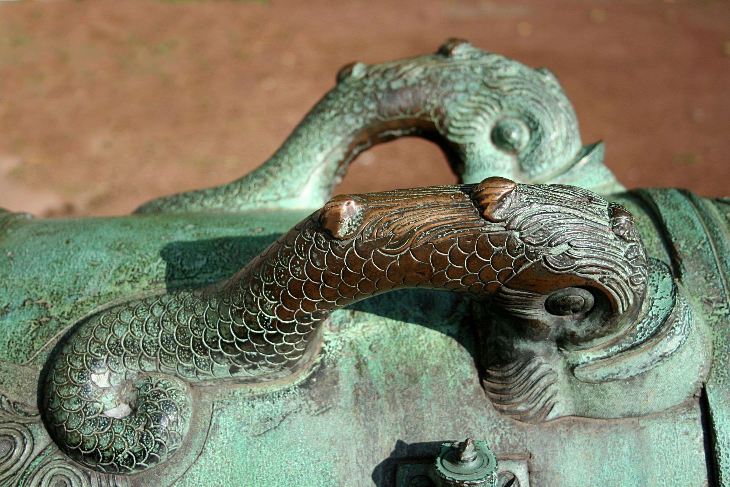 Morlanwelz (Belgium) - Domaine de Mariemont - zoomorphic handles on the top of the barrel of a 24 Vallière bronze cannon (XVIIIth century).